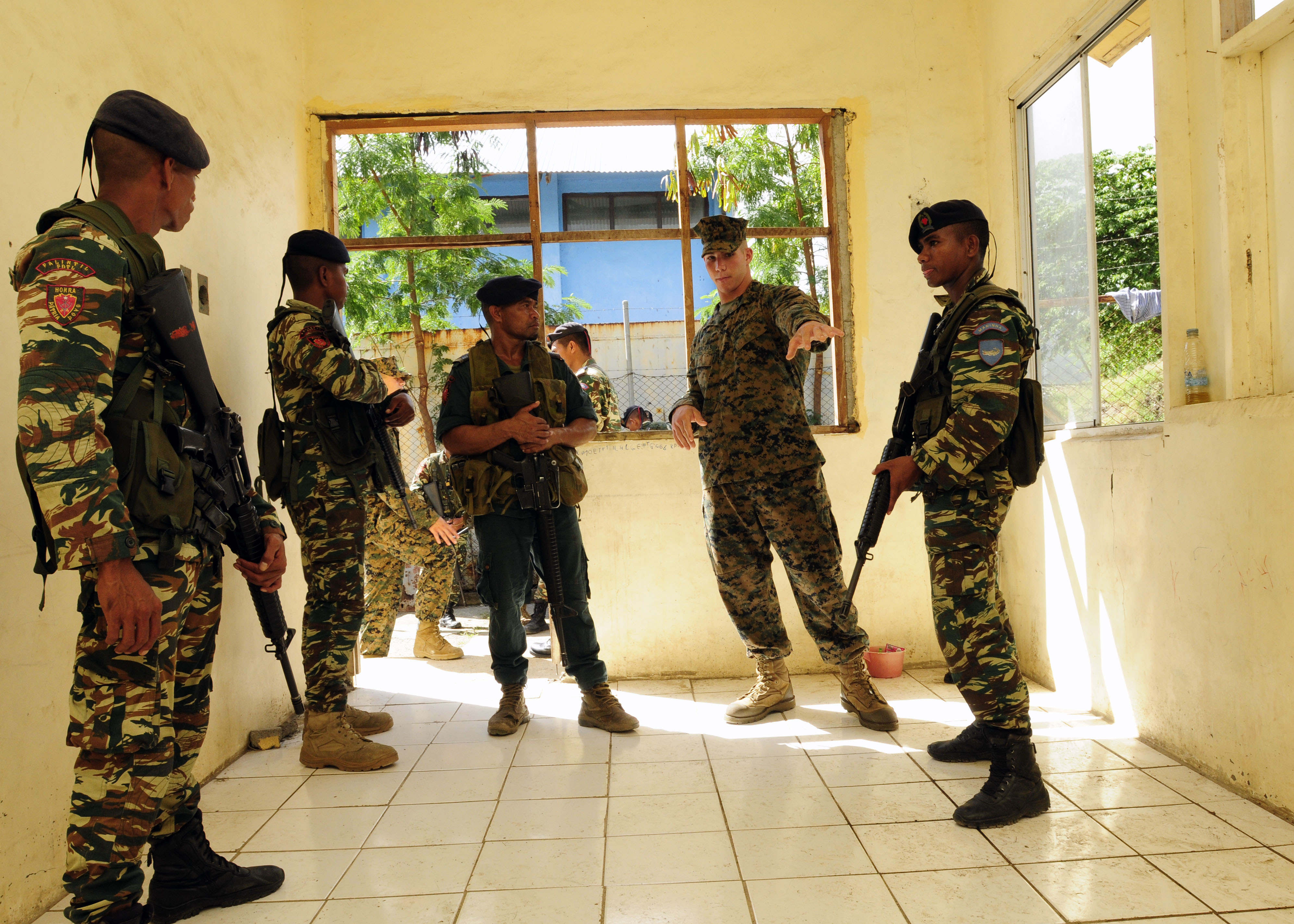 DILI, Democratic Republic of Timor-Leste (June 25, 2013) Lance Cpl. Christopher Akromas, second from right, trains advanced urban combat techniques to members of the Timor-Leste Defence Force in Dili, Democratic Republic of Timor-Leste. Marines from Fleet Antiterrorism Security Team Pacific and Sailors from U.S. 7th Fleet flagship USS Blue Ridge (LCC 19) participated in a military-to-military engagement with the Timor-Leste Defense Force during a port visit in Dili.